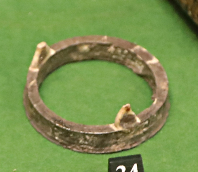 Photo of a ring stilt